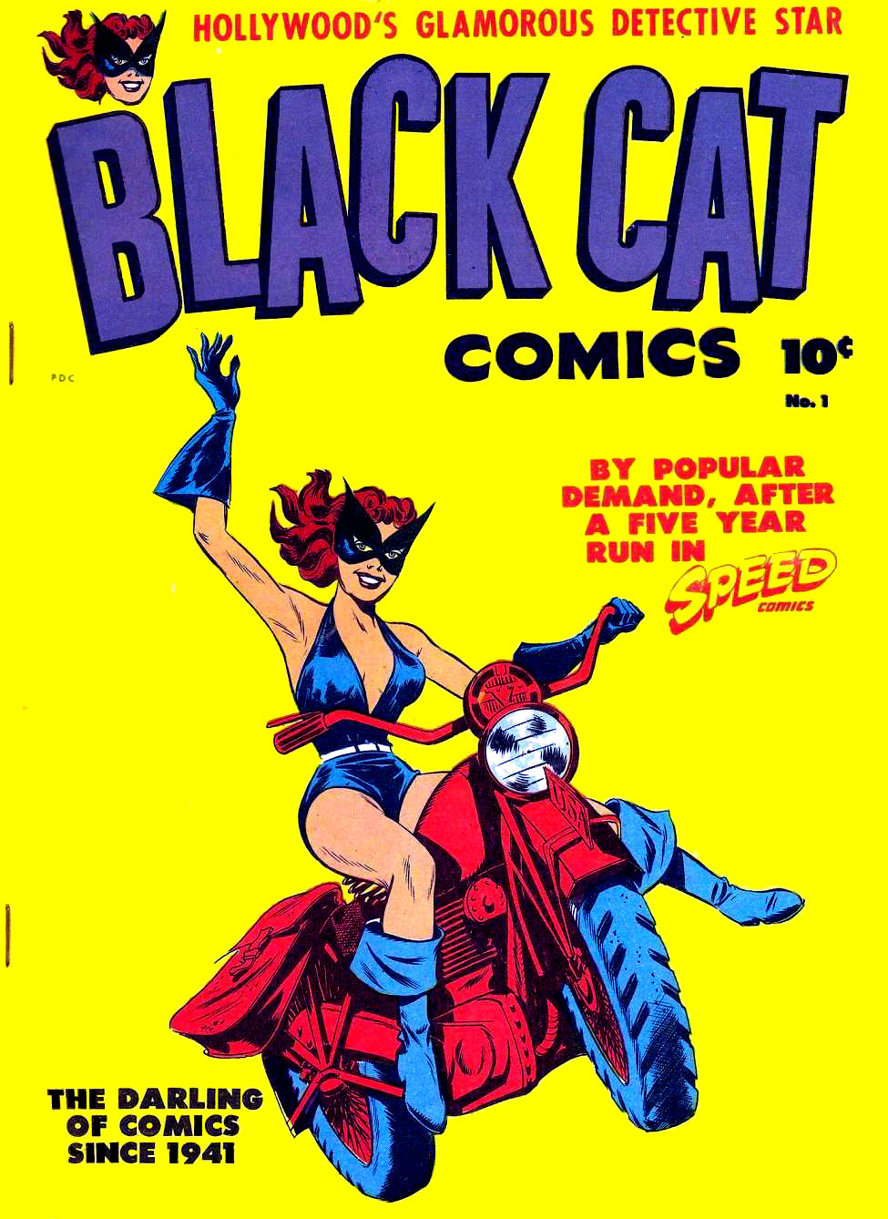 Black Cat #1, Harvey Comics